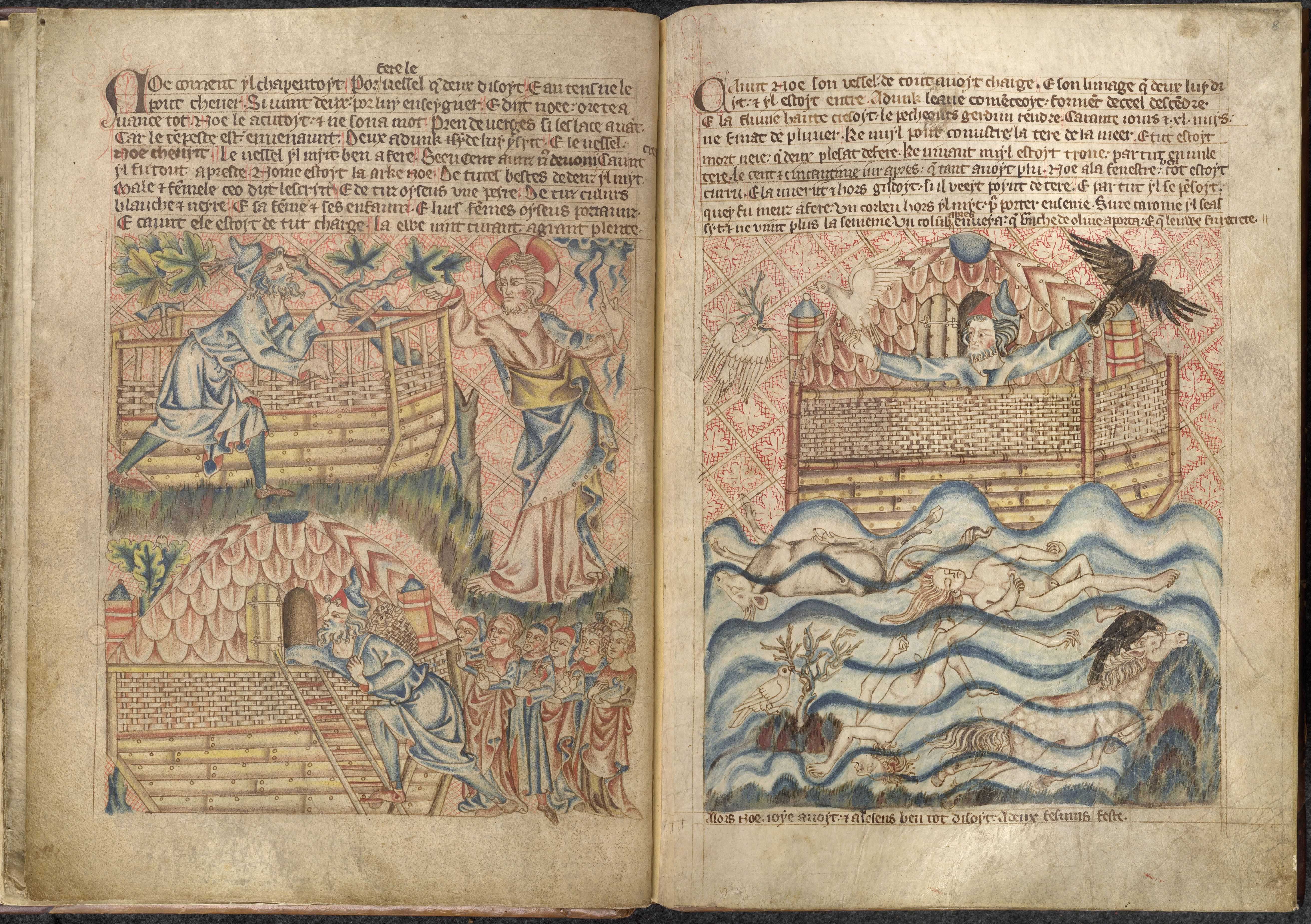 Double page from the Holkham Bible, BL Add. MS 47682, fol. 7v and 8r; Noah's Ark